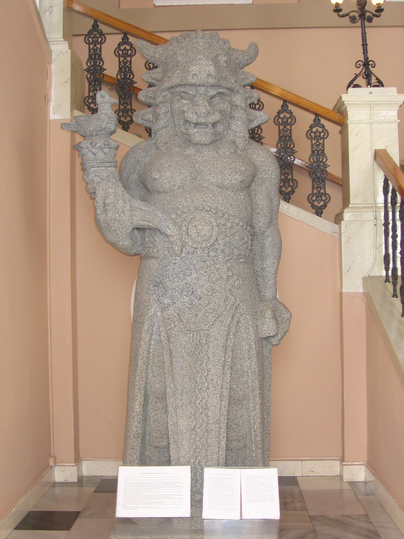 Original statue of god Radegast created by Albín Polášek in 1931, from 1998 placed at town hall in Frenštát pod Radhoštěm (Czech Republic)